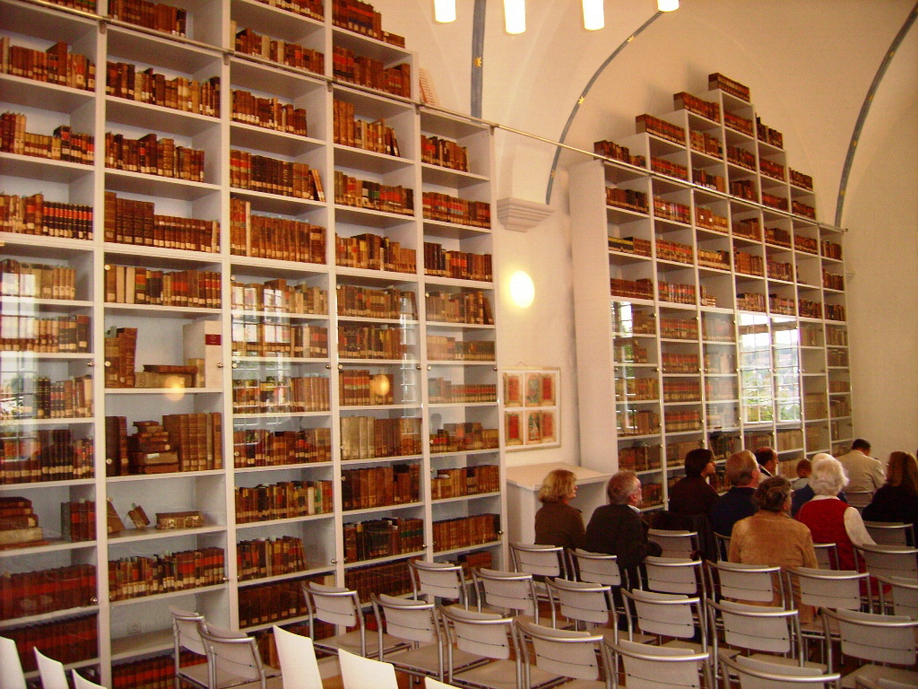 Historische Schulbibliothek Laurentianum